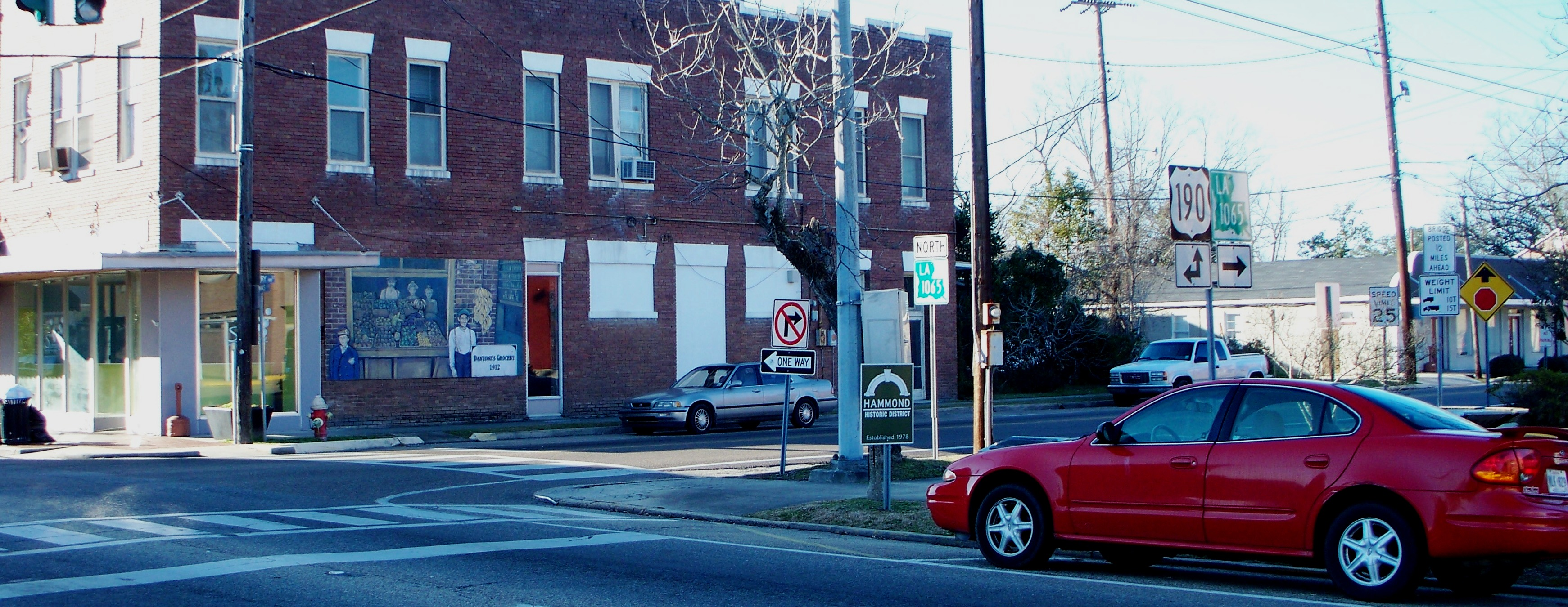 LA 1065 southern terminus at US 190. The southern end of LA 1065 meets US 190 in the Historic District of Hammond. Dantone's Grocery (background) was founded in 1912 by Italian immigrants. To the left (south) of the photograph is the historic Columbia Theatre (not shown).